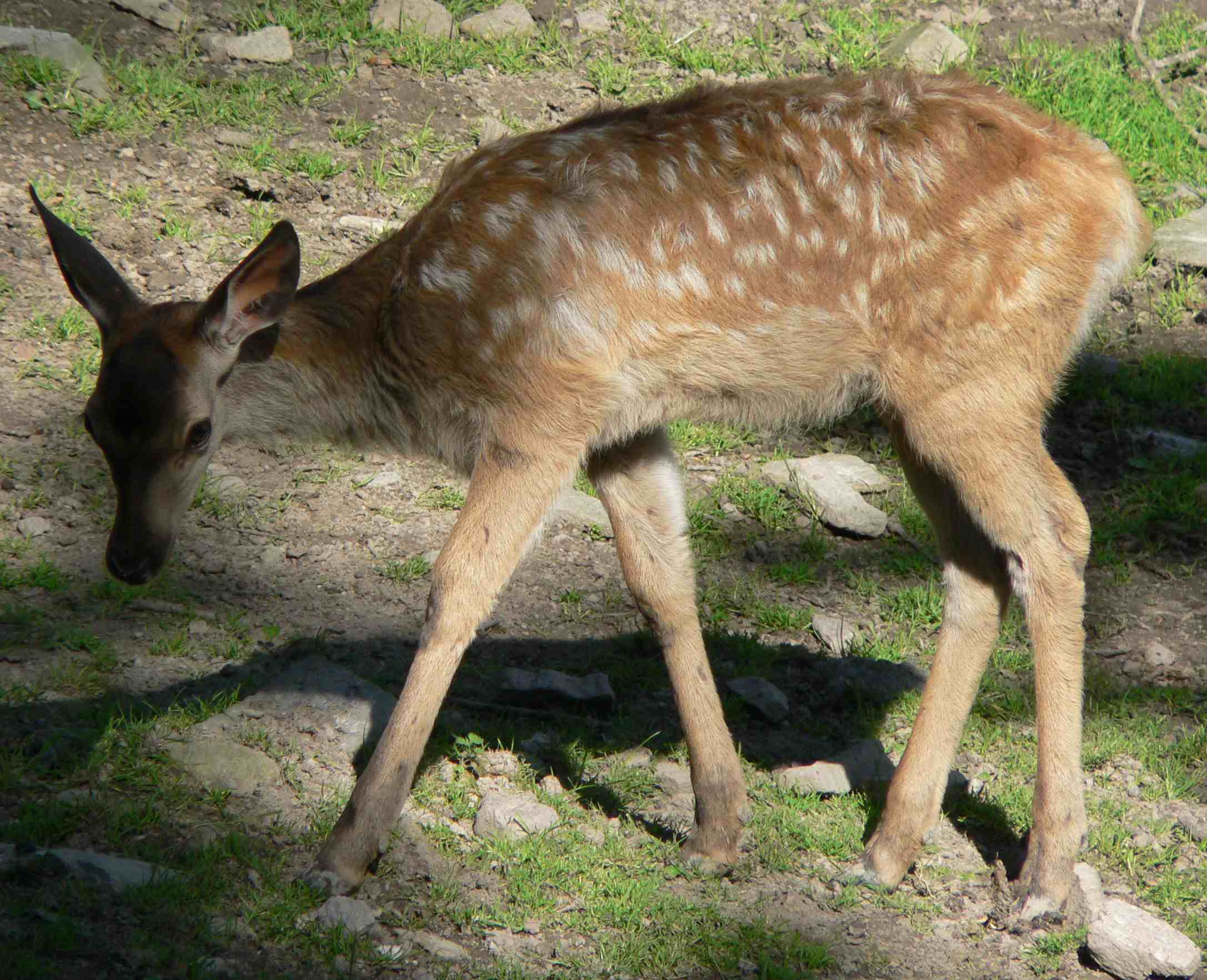 Cervus elaphus, fawn